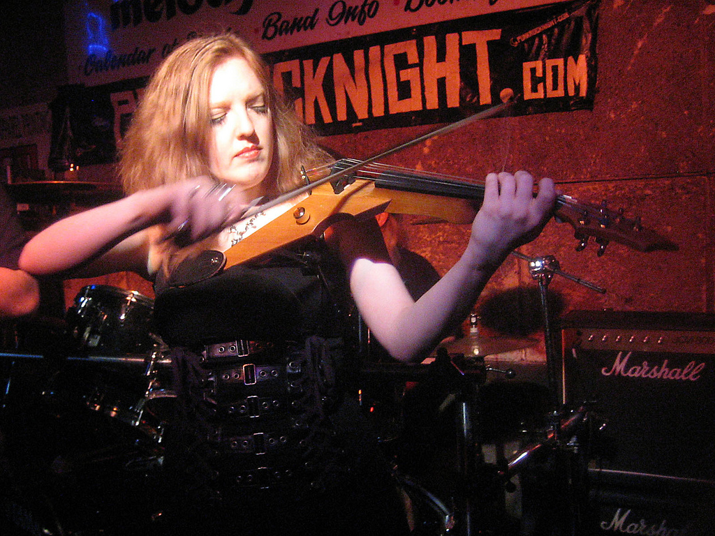 Violinist Rachel Barton Pine (b. 1974) plays six-string electric violin "Viper" with American thrash/doom metal band "Earthen Grave".